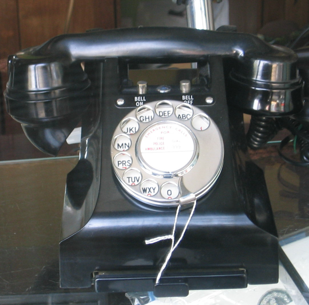 GPO 332 Telephone: Deben Dave 19:01, 19 September 2007 (UTC)